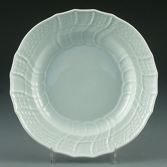 Plate, Neubrandenstein service